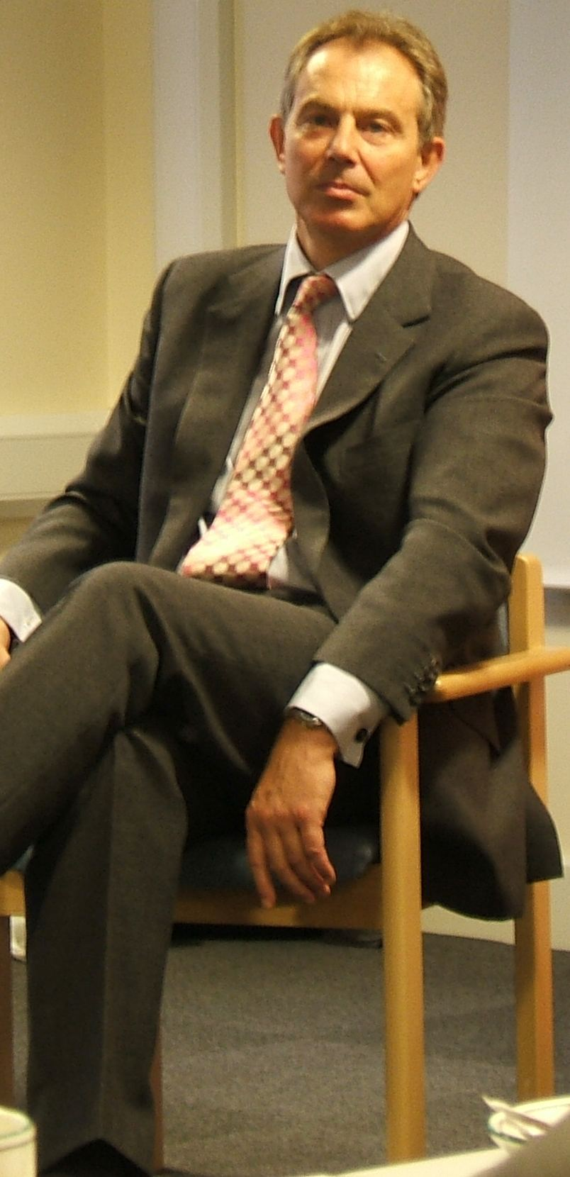 Tony Blair talking to Labour party members at the Central Sussex College in Crawley, EnglandOur Leader